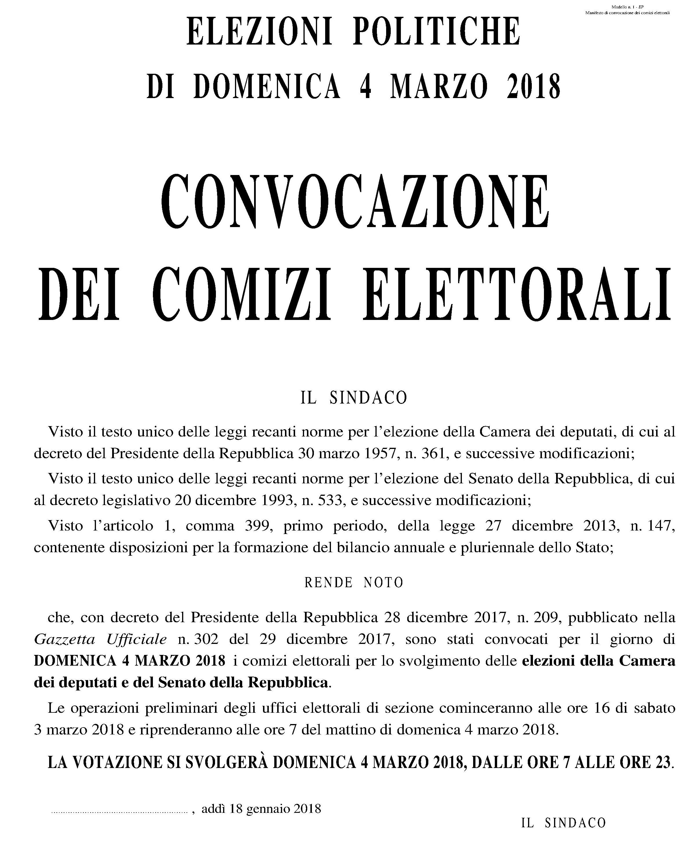 2018 Italian general election calling notice (facsimile)